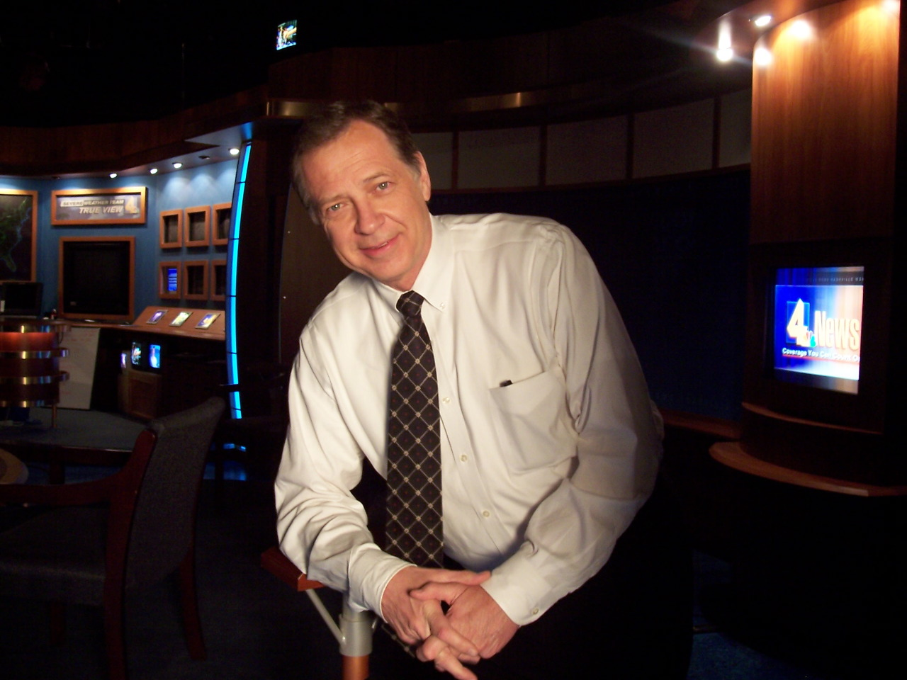 News personality Dan Miller, taken inside the WSMV-TV studios in Nashville, Tennessee.